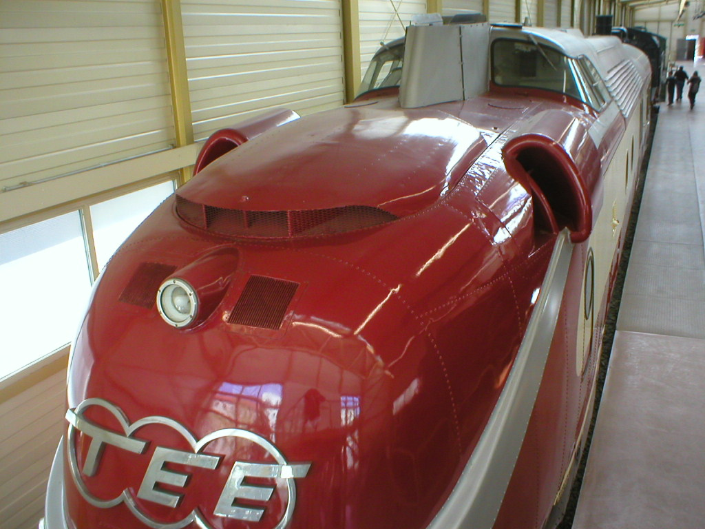 The TEE museum train at the DBMuseum in Nuremberg